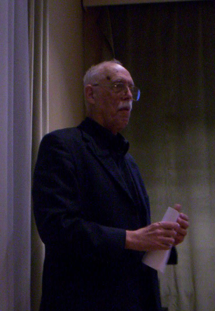 András Róna-Tas, a Hungarian linguist, Turkologist.